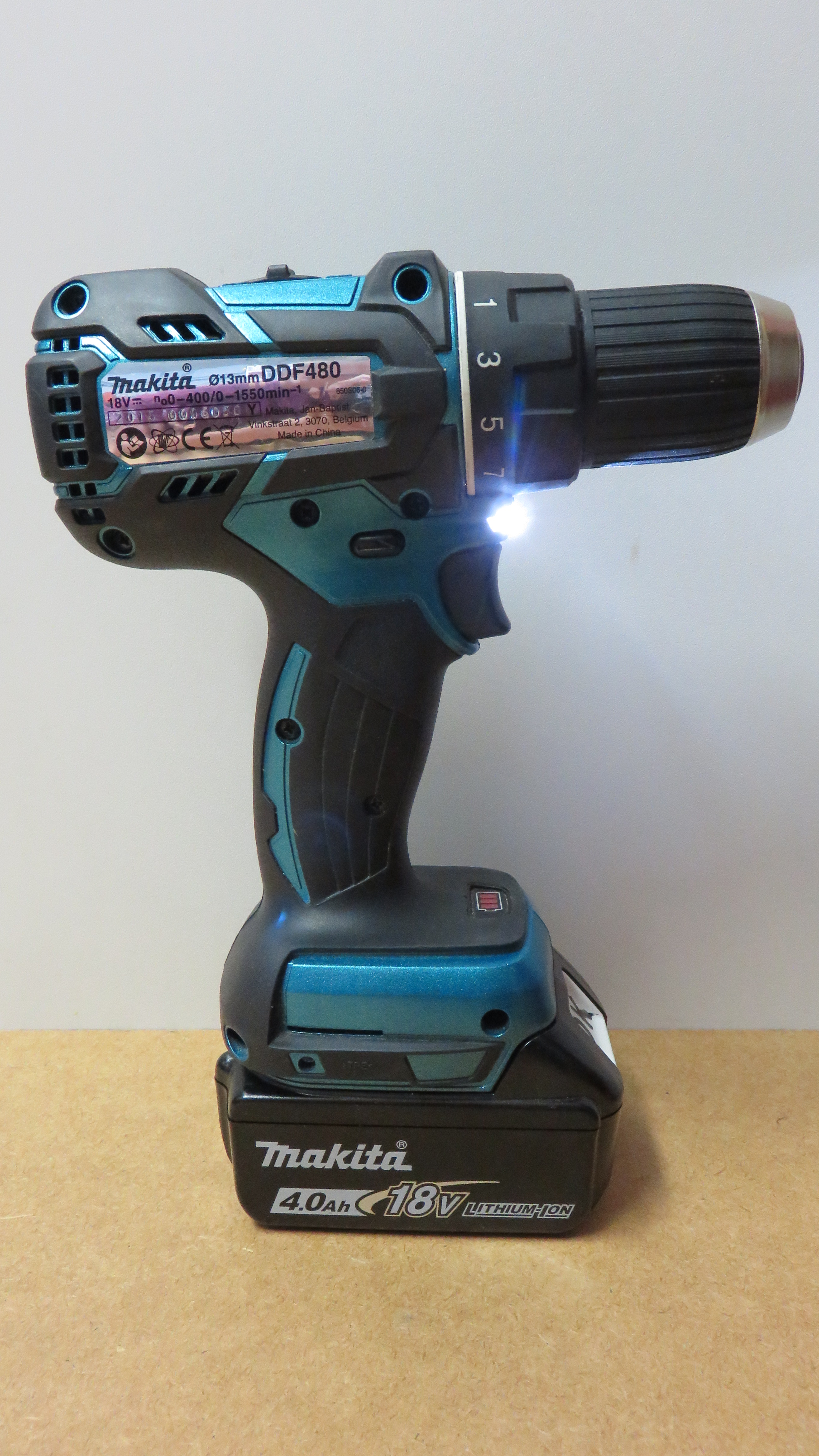 Makita 18V electric drill